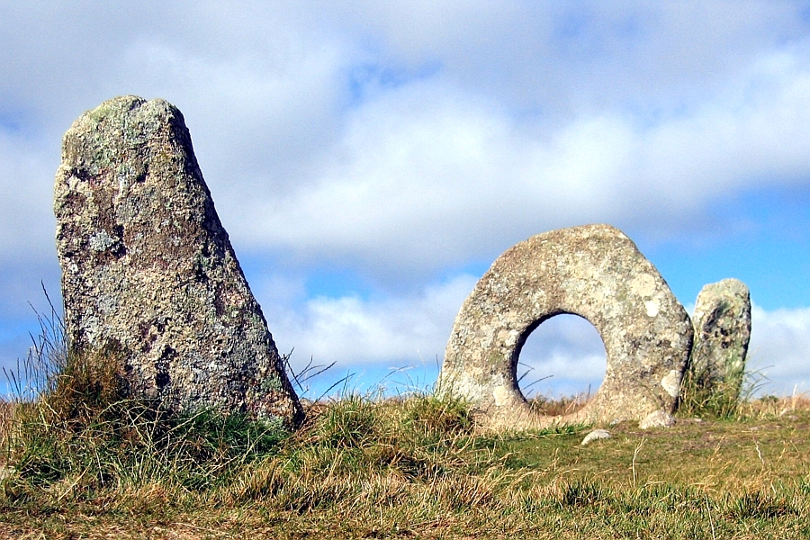 Men-an-Tol - Megalith - Cornwall - UK